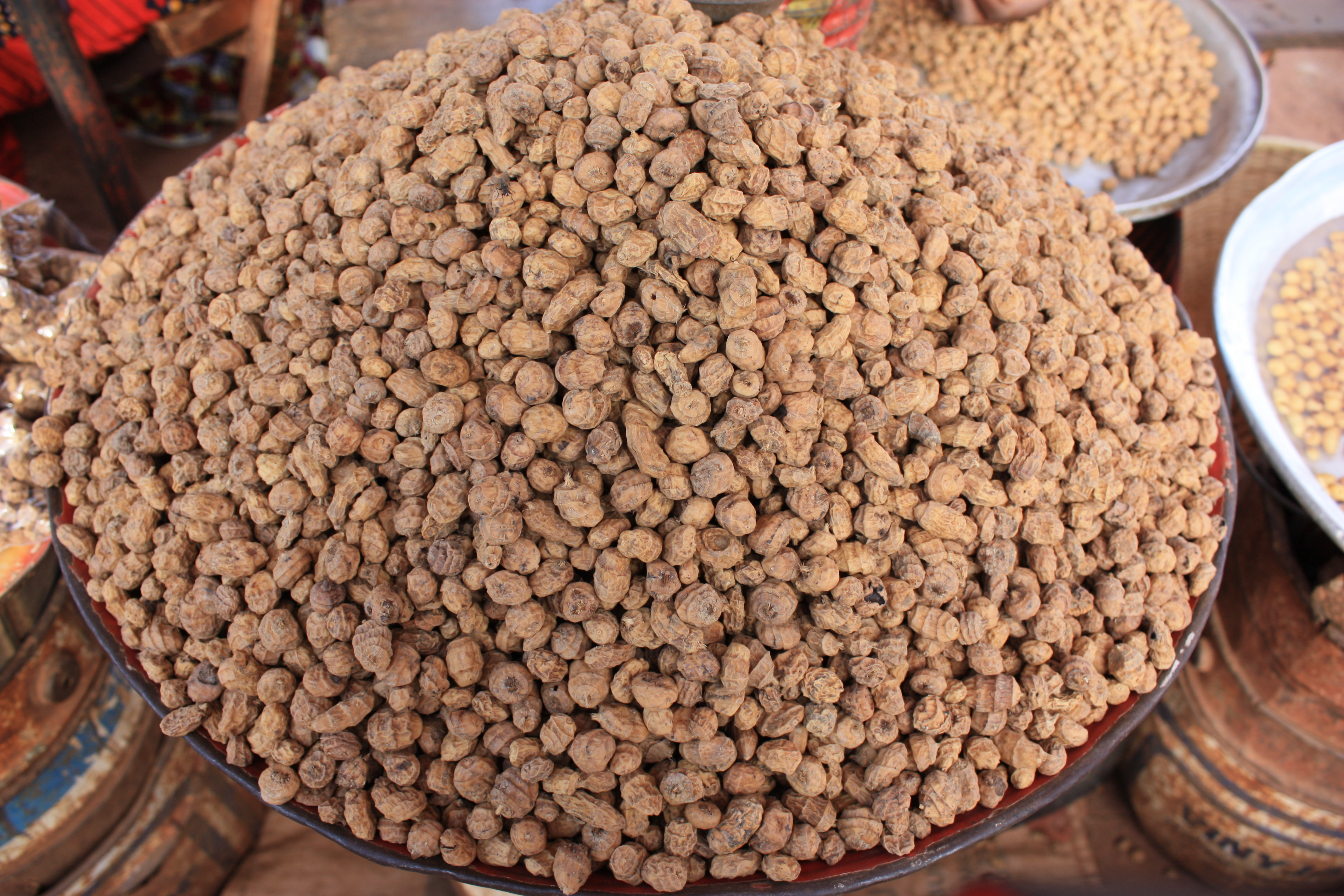 Tubers of Cyperus esculentus, Banfora market, SW Burkina Faso